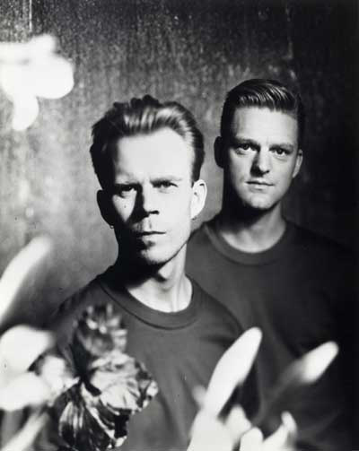 Photo of Erasure taken in 1989.